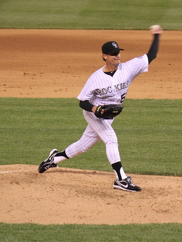 Jamie Moyer pitching for the 2012 Colorado Rockies in a no-decision on May 5, 2012 vs the Atlanta Braves.